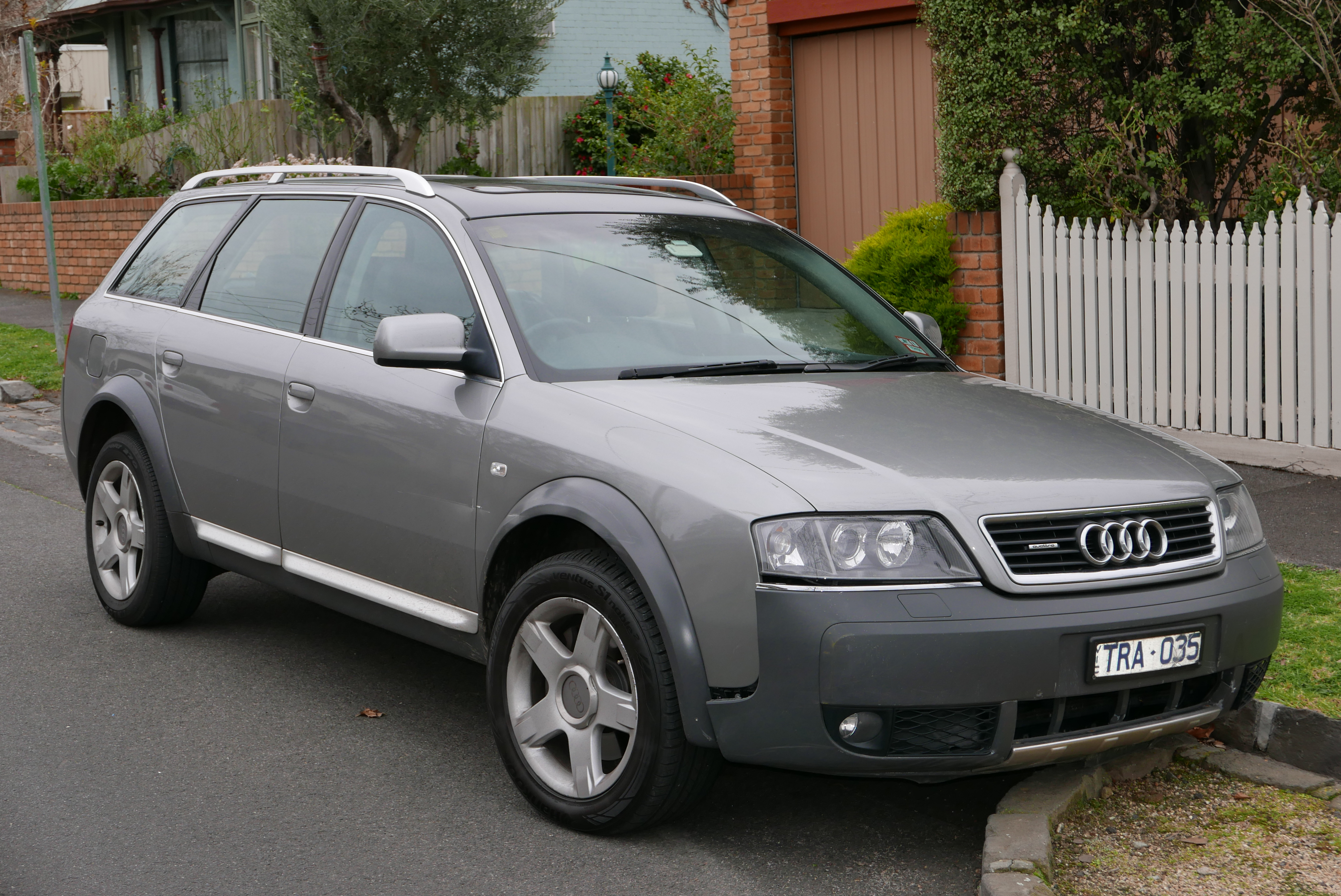 2005 Audi allroad (4B MY04) 2.5 TDI quattro Avant station wagon. Photographed in Kew, Victoria, Australia. Vehicle registration enquiry resultsJurisdictionVictoriaRegistrationTRA035Chassis codeWAUZZZ4B15N025803Engine codeBAU047163Compliance date2005-05Year of manufacture2005